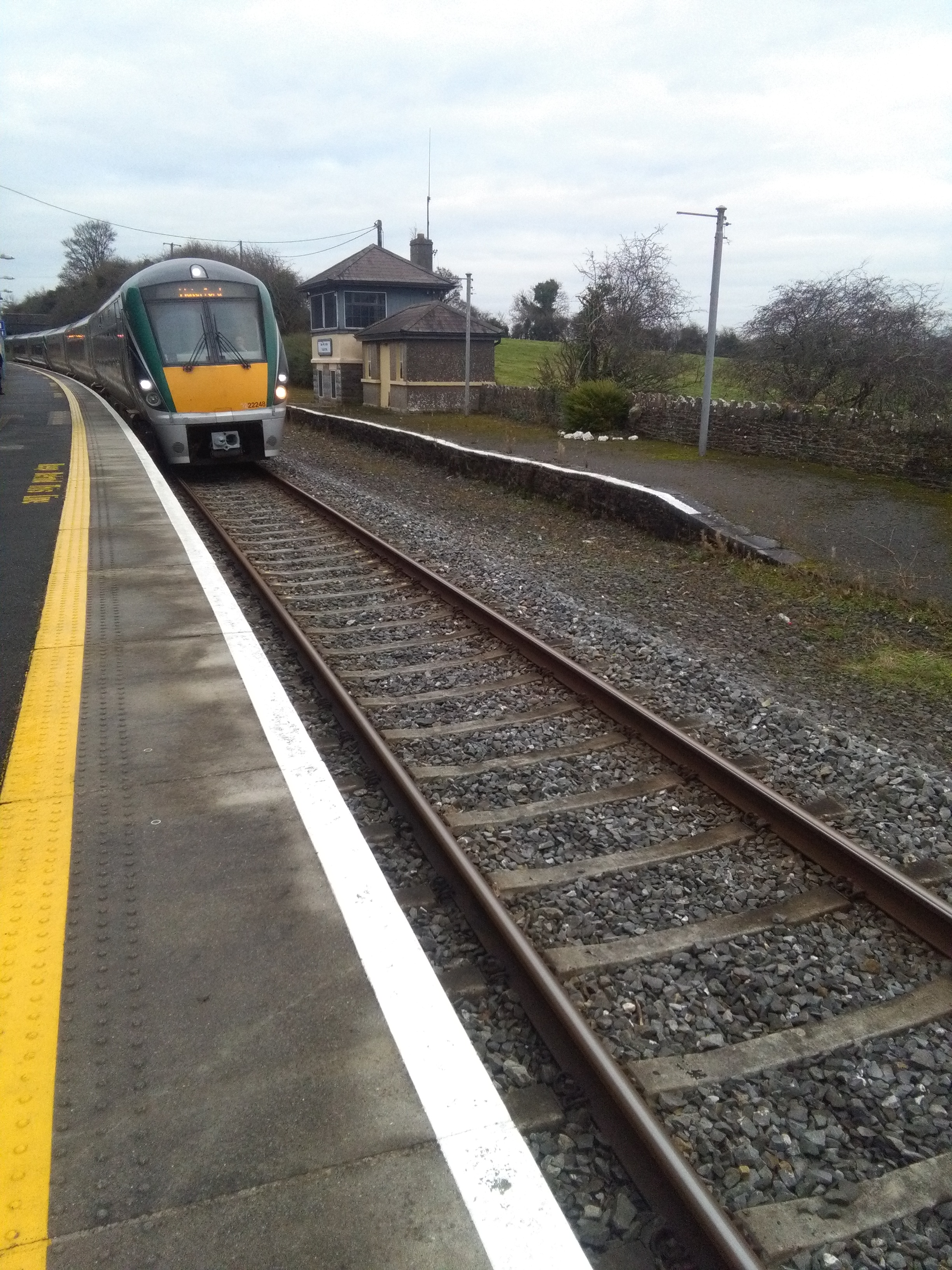 Waterford bound train approaching the station